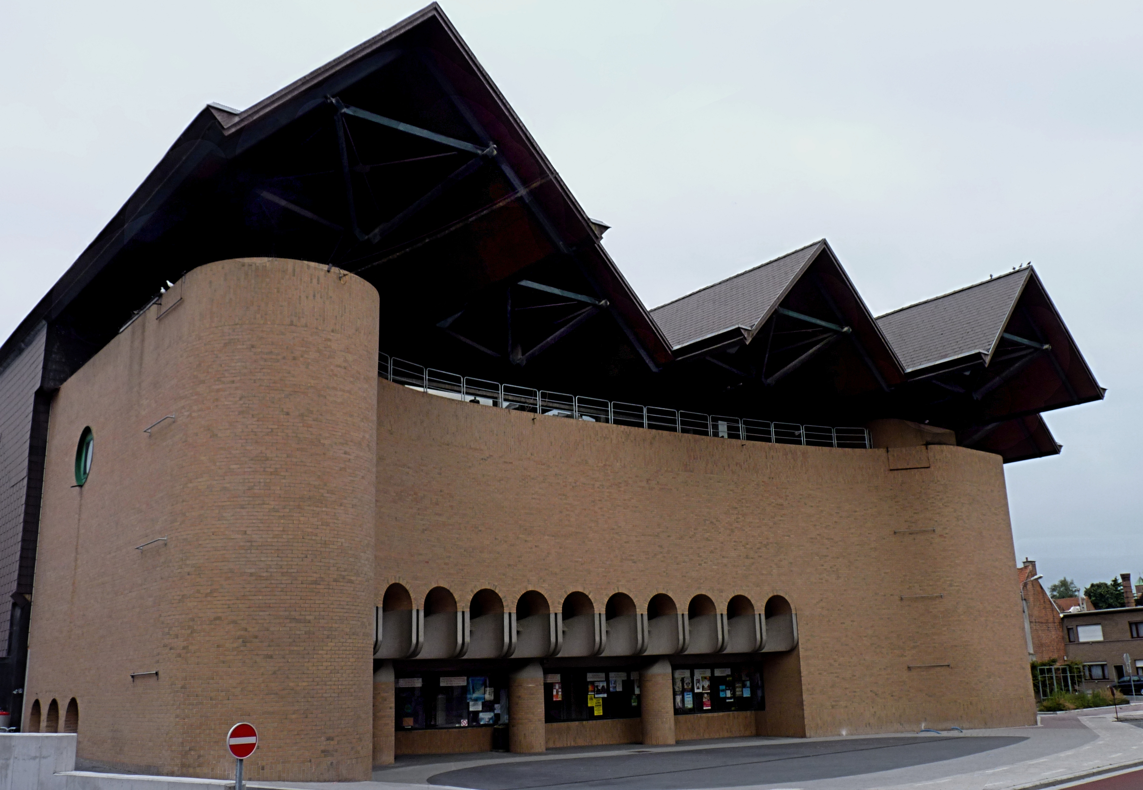 Center Marius Staquet in Mouscron, Belgium.